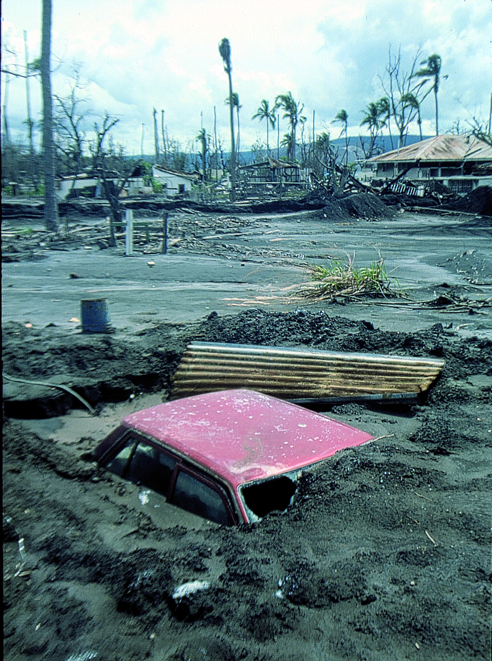 Aftermath of Mount Vulcan eruption, Rabaul, PNG, 1994.